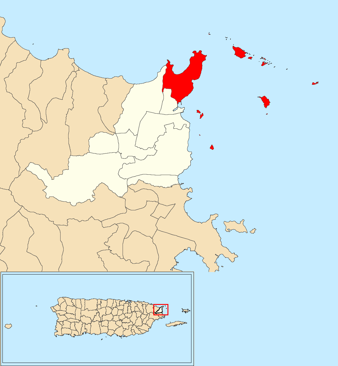 Cabezas, Fajardo, Puerto Rico locator map